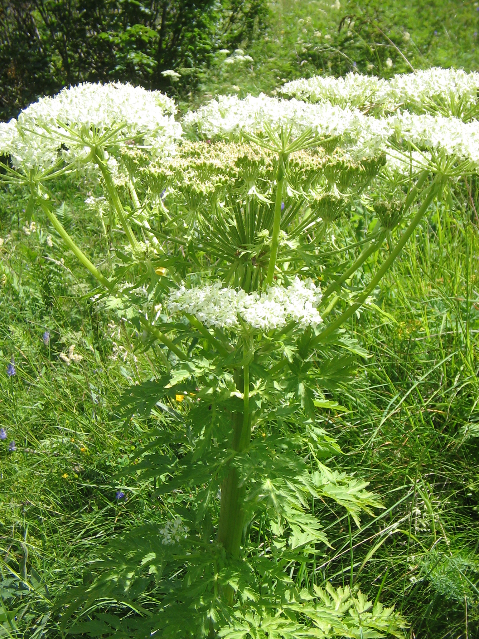 Pleurospermum austriacum